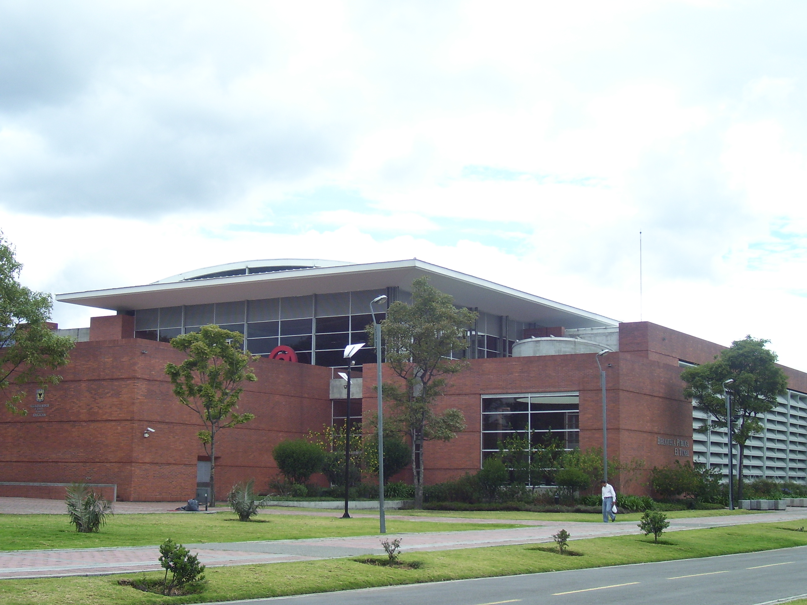 El Tunal library